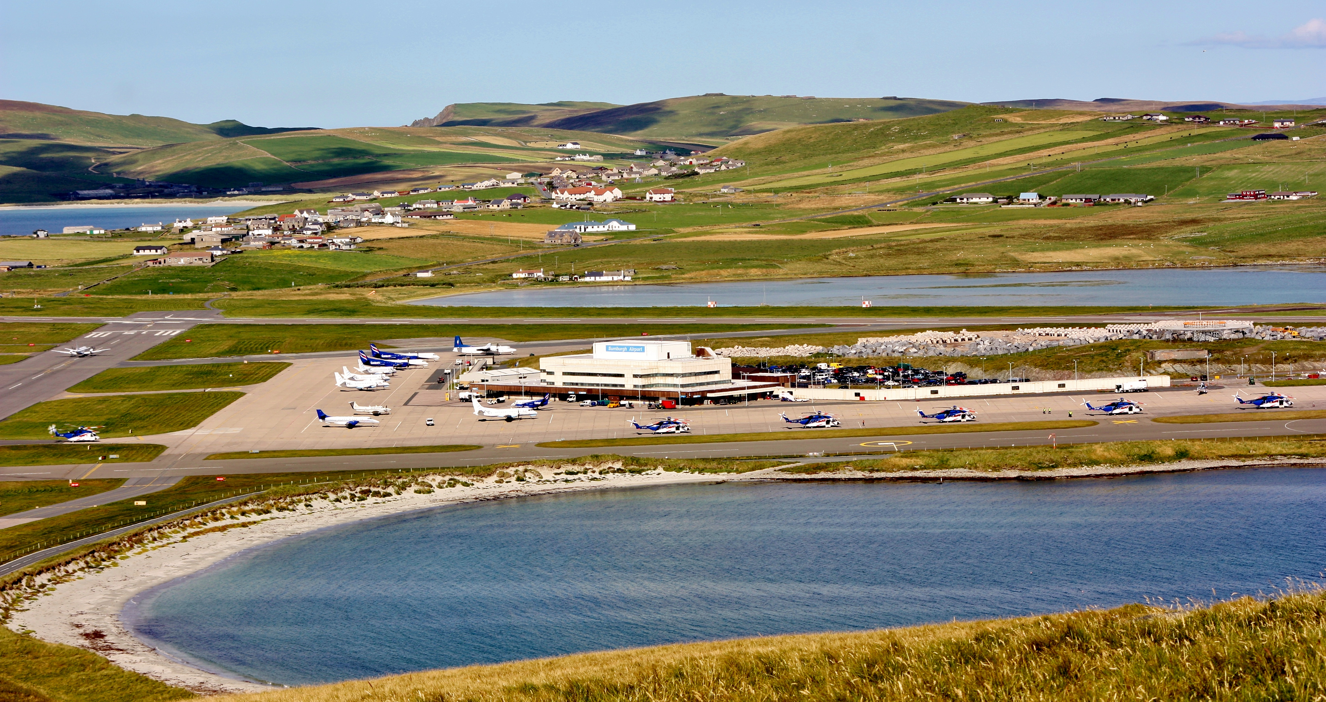 All action at Sumburgh airport